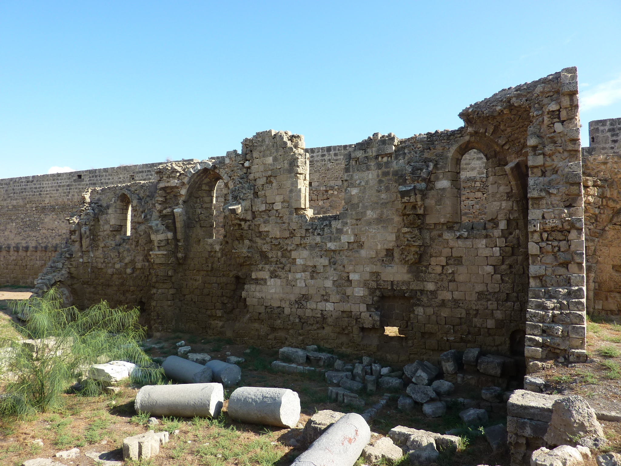 St. Anthony church and hospital, Famagusta